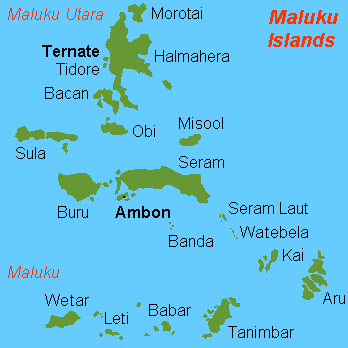 Map (rough) of Maluku islands, Indonesia, own work composed from various mapreferences